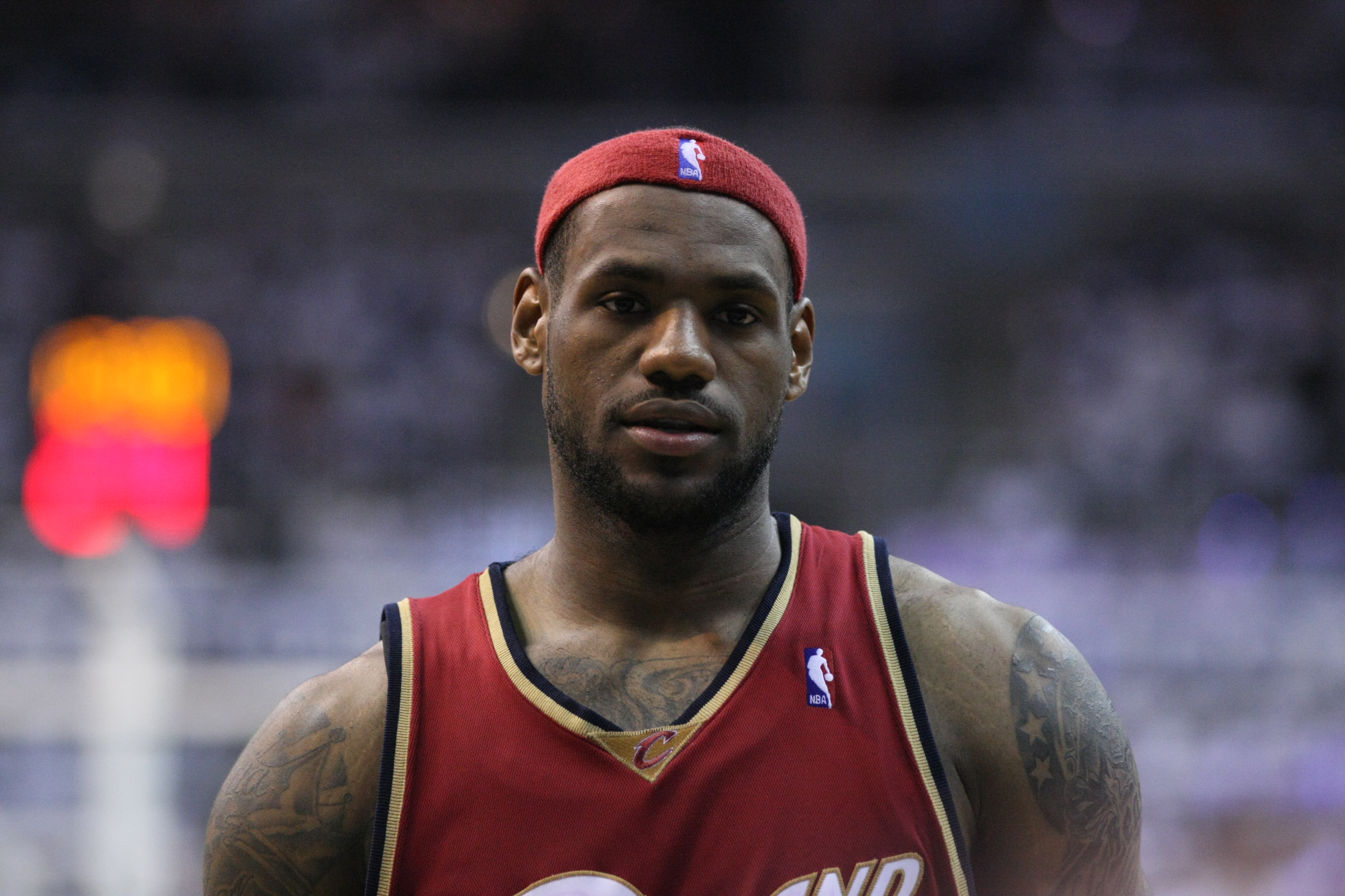 LeBron James, Cleveland Cavaliers, Wizards v/s Cavaliers Playoff Game 4 04/27/08